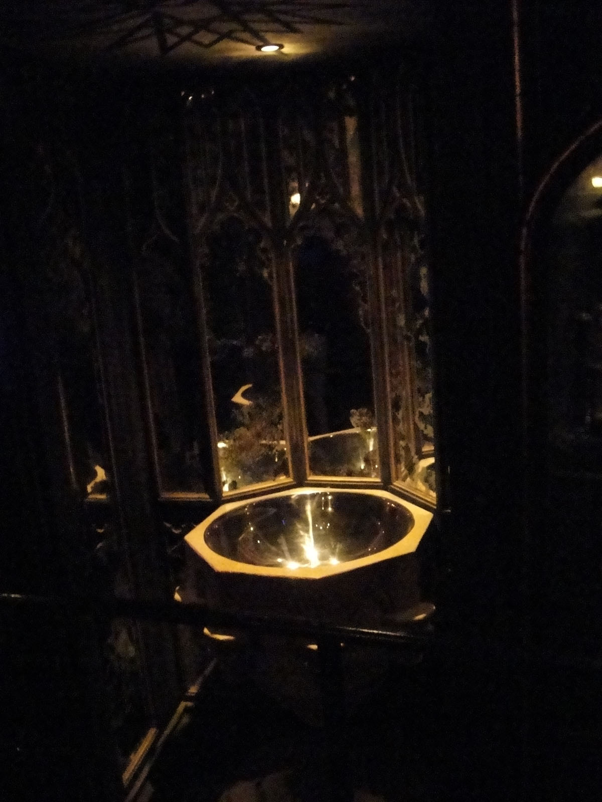 Wizarding World of Harry Potter - Pensieve in Dumbledore's office